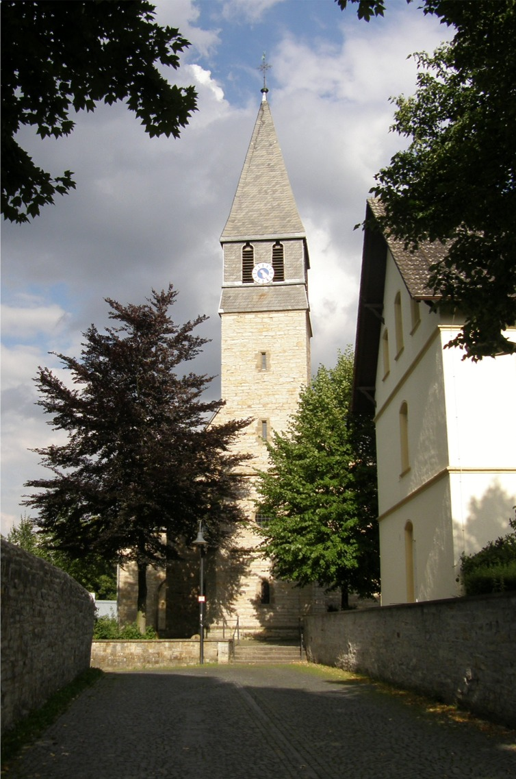 Catholic church Saint Judoc in Wewelsburg, North Rhine-Westphalia, Germany